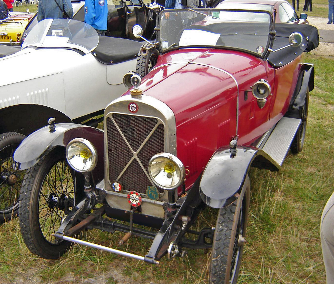 1925 Salmson VAL3 (Serie 5) at the Autodrome de Linas-Montlhéry, 2009